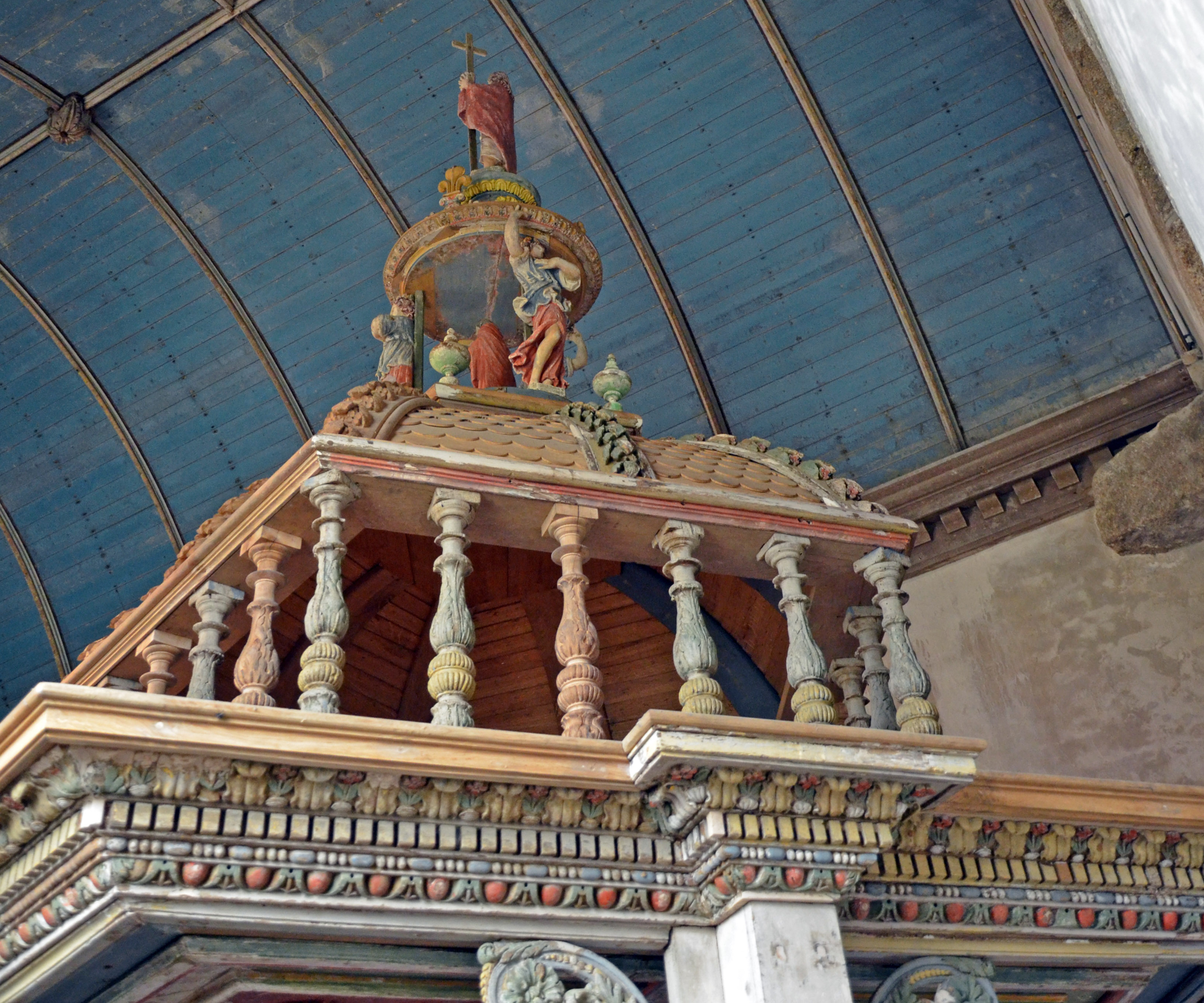 Inside of the church of Saint-Derrien (in common Commana, located in Brittany in western France). The south transept houses the "altar of the Five Wounds." At the bottom of the church, a baptistery basin of stone is topped by a high dai including wood carvings decorated with feminine virtues (temperance, justice ...).